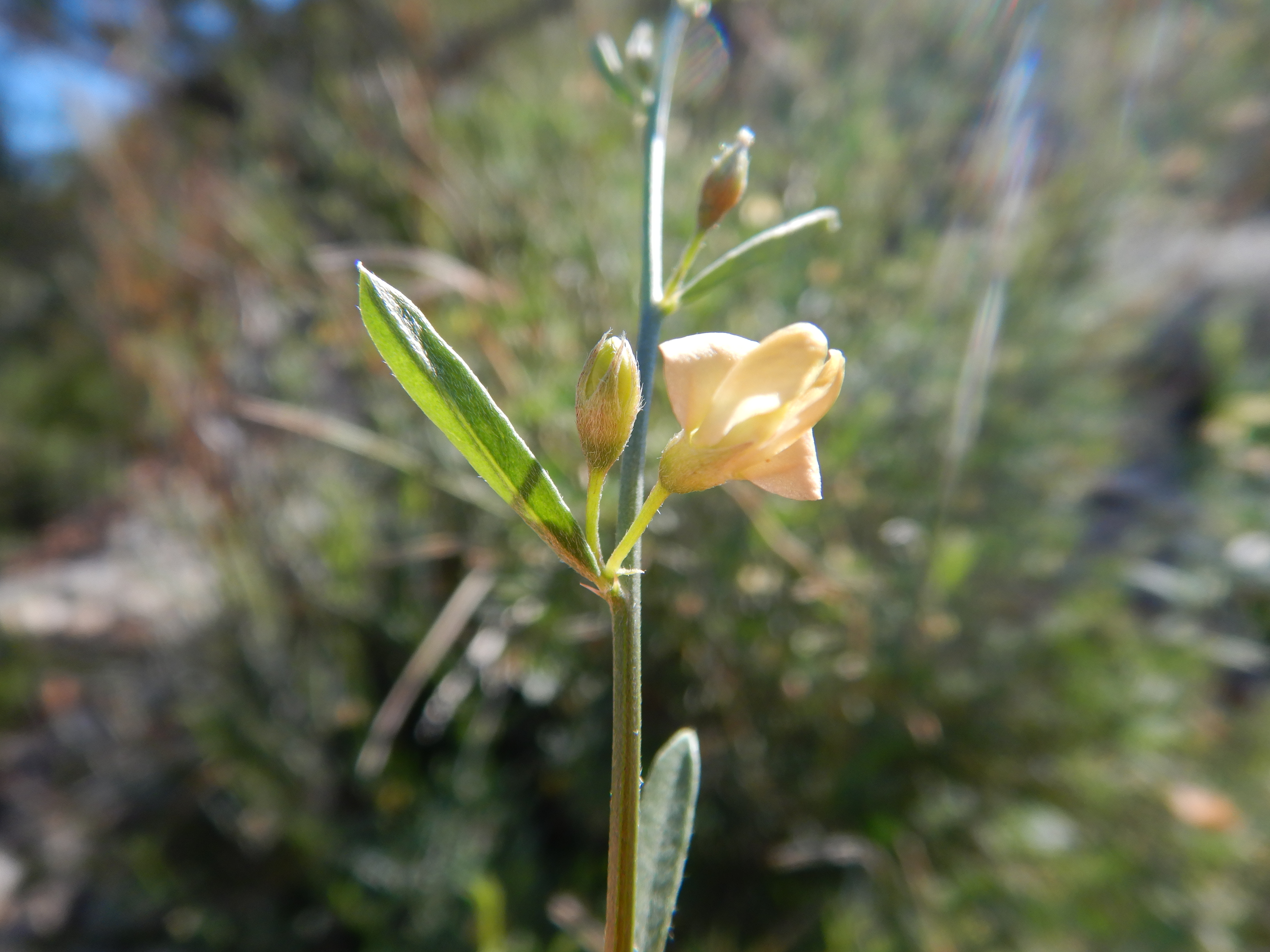 An axillary fascicle of two flowers.